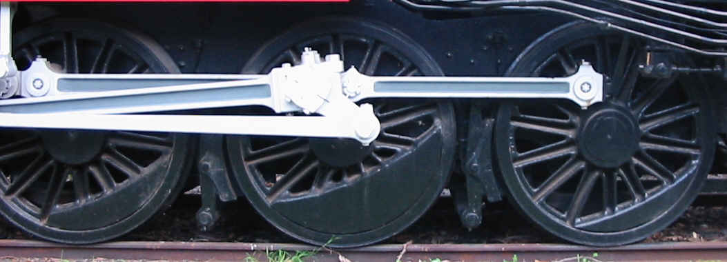 'SCOA P' driving wheels on Victorian Railways J class 2-8-0 steam locomotive J 559.